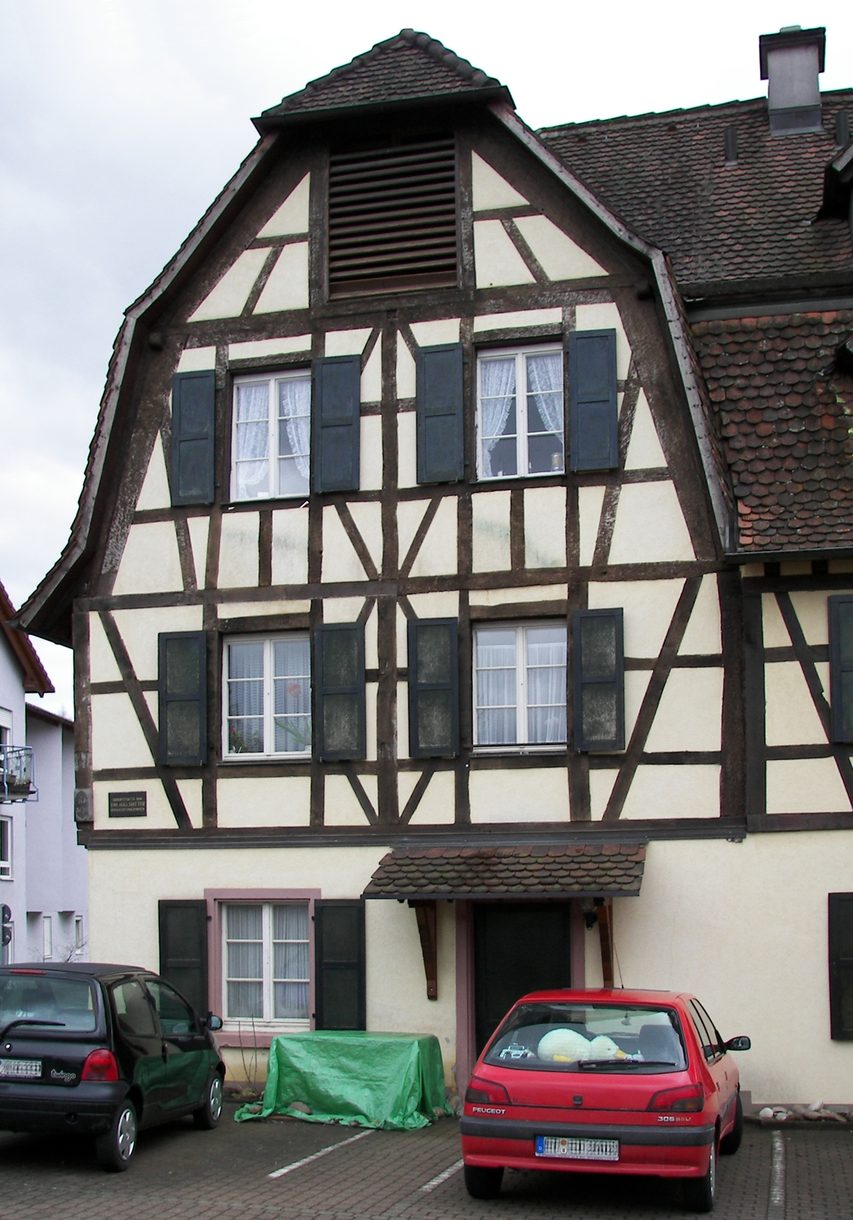 Paper mill in Kandern, Germany, birthplace of John Sutter